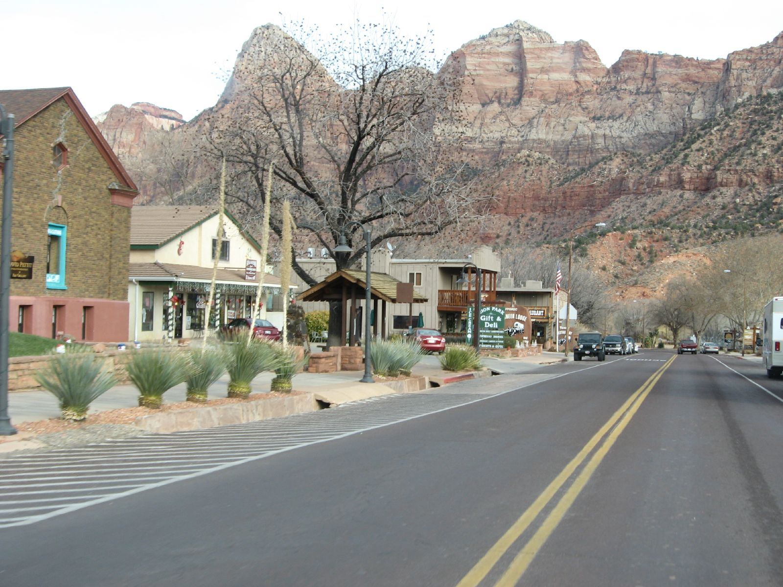 The town of Springdale, Utah, United States, with Zion National Park in the background.